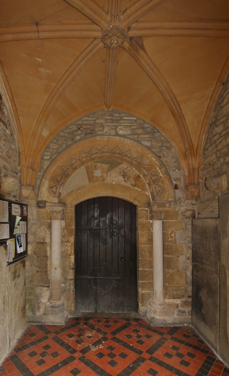 Inner portal of the south porch of the parish church of St James, Norton, Sheffield, South Yorkshire